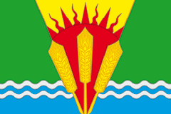 Flag of Lovlinskoe rural settlement, Krasnodar Territory, Russia